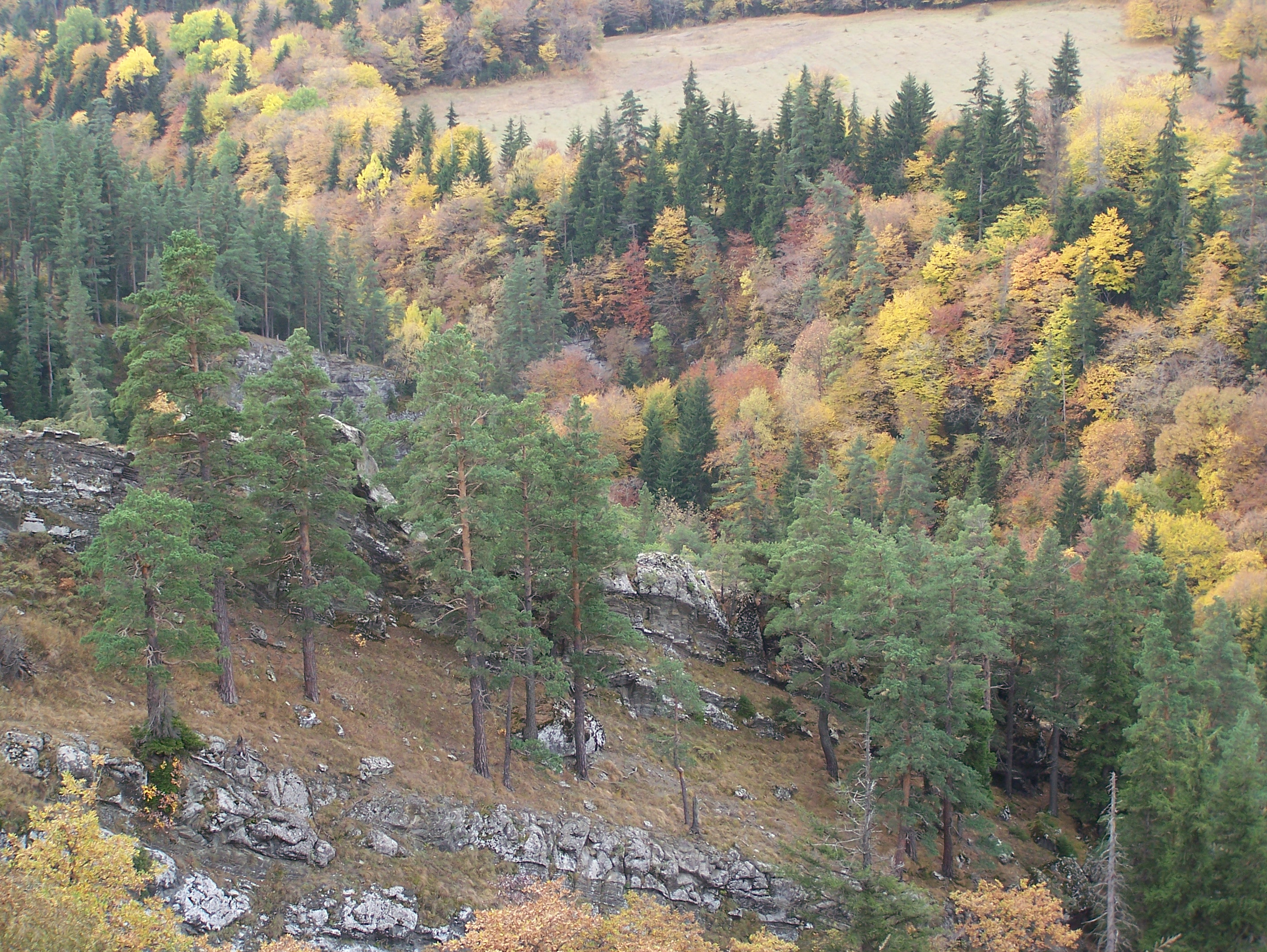 Algeti National Park (14 October 2007). 019